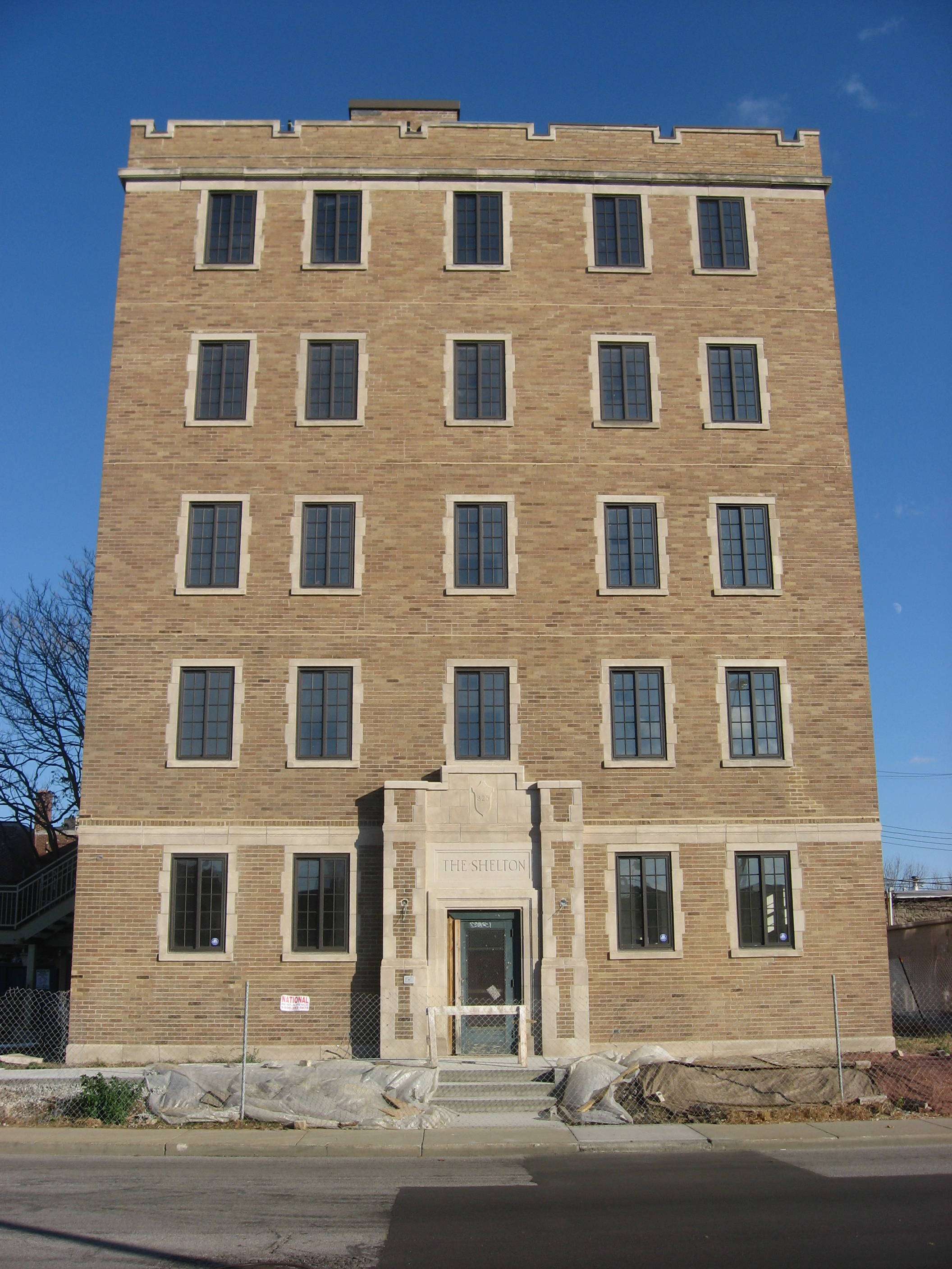 Front of The Shelton, located at 825 N. Delaware Street in Indianapolis, Indiana, United States. Built in 1925, it is listed on the National Register of Historic Places as one of the "Apartments and Flats of Downtown Indianapolis Thematic Resources".